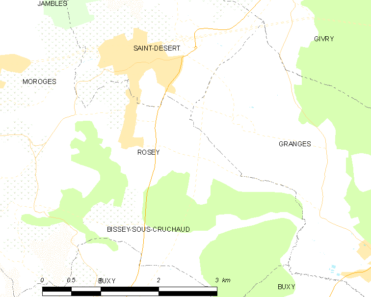 Map of French municipality